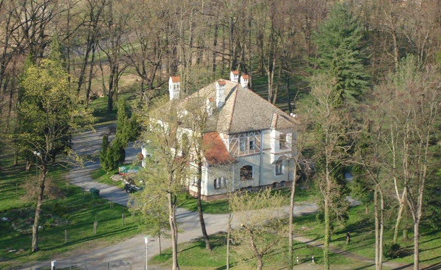 Villa Neuschloß, in Durdenovac, Croatia, an example of Art Nouveau style.